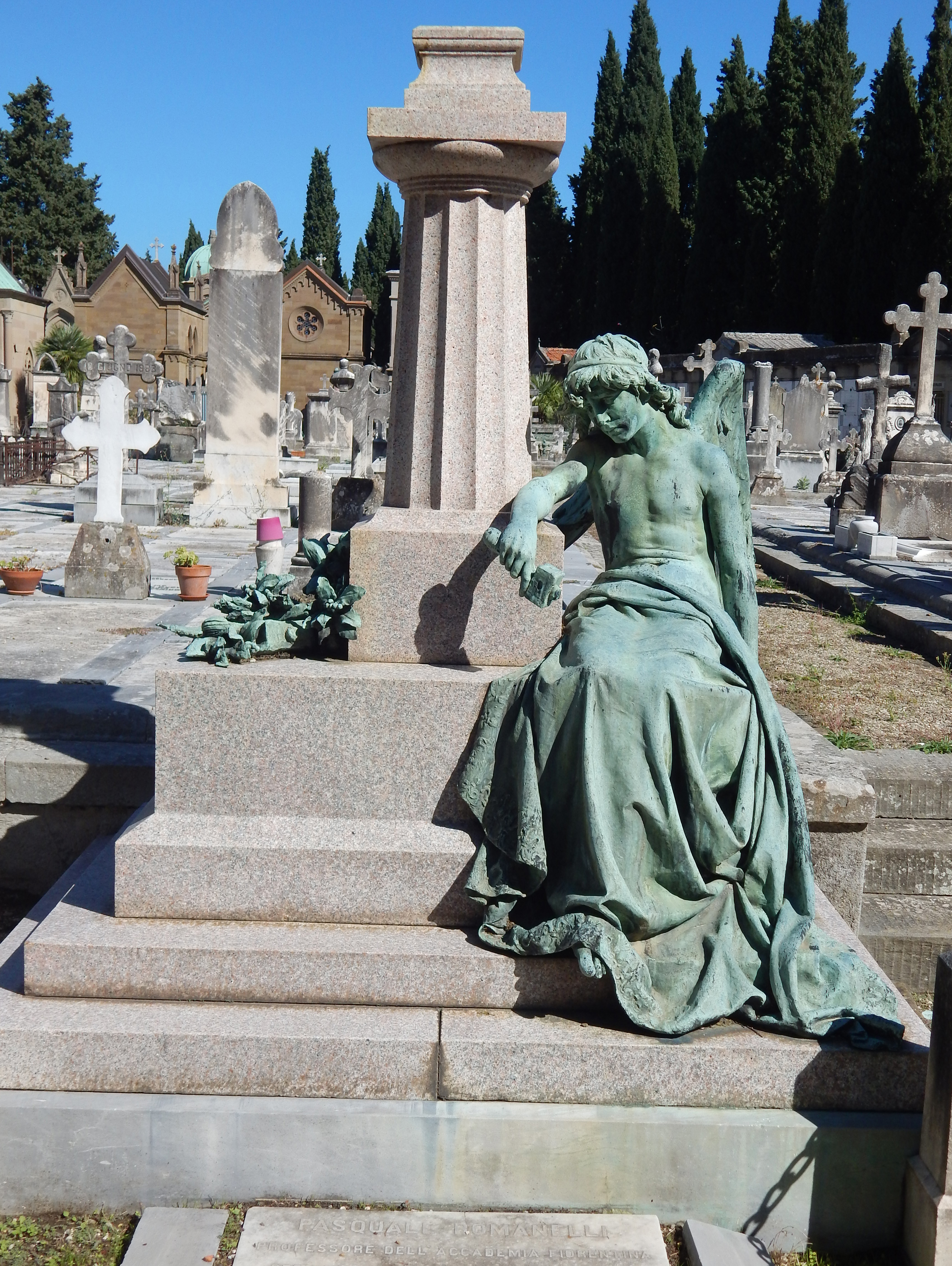 sculpture for Tomb of Pasquale Romanelli (1812-1887), the sculptor's father; the original tomb had a portrait bust of the deceased on the pedestal